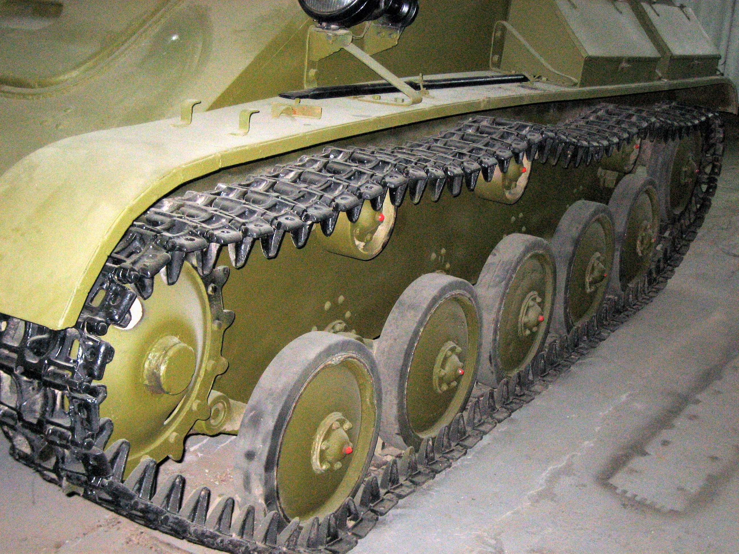 Soviet light infantry tank T-70, displayed in Kubinka Tank Museum. Photo taken on September 9, 2007. Source: Photo by me, User:Saiga20K.